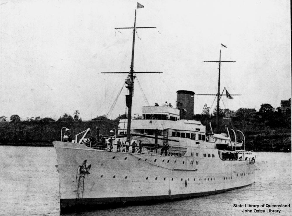 Alva (ship). Caption: The luxurious yacht Alva, on which Mr. W. K. Vanderbilt, the American millionaire, who is making a cruise of the world, arrived in Brisbane last week.